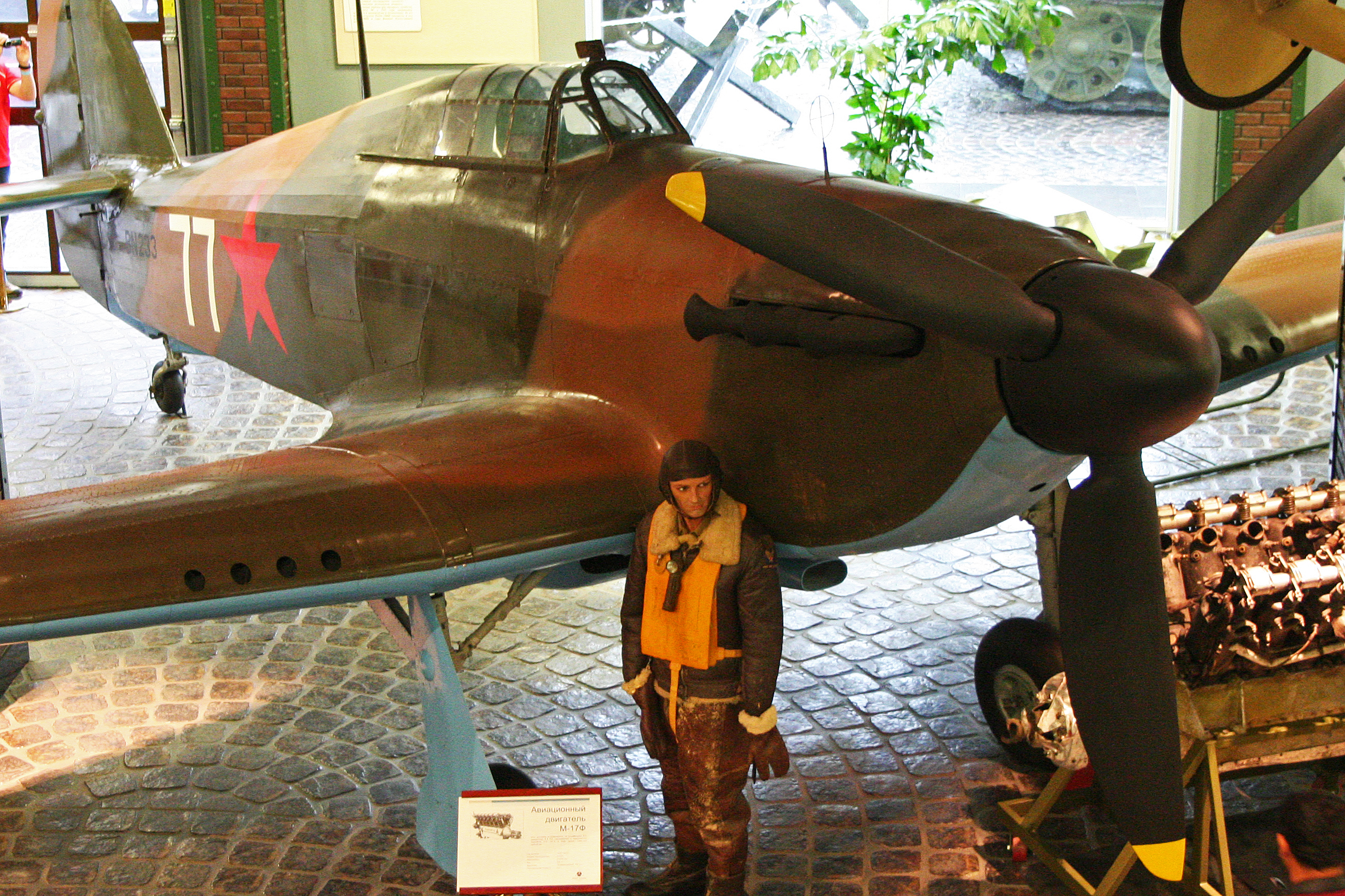 In contrast to the Hurricane in Victory Park, this machine has been restored to a standard that British museums would be proud of. It wouldn't look out of place on the flightline at Flying Legends!! Although marked as BN233 it is actually AP740. Displayed in the Vadim Zadorozhny Technical Museum, Arkangelskoye, Moscow. Russia. 14-8-2012